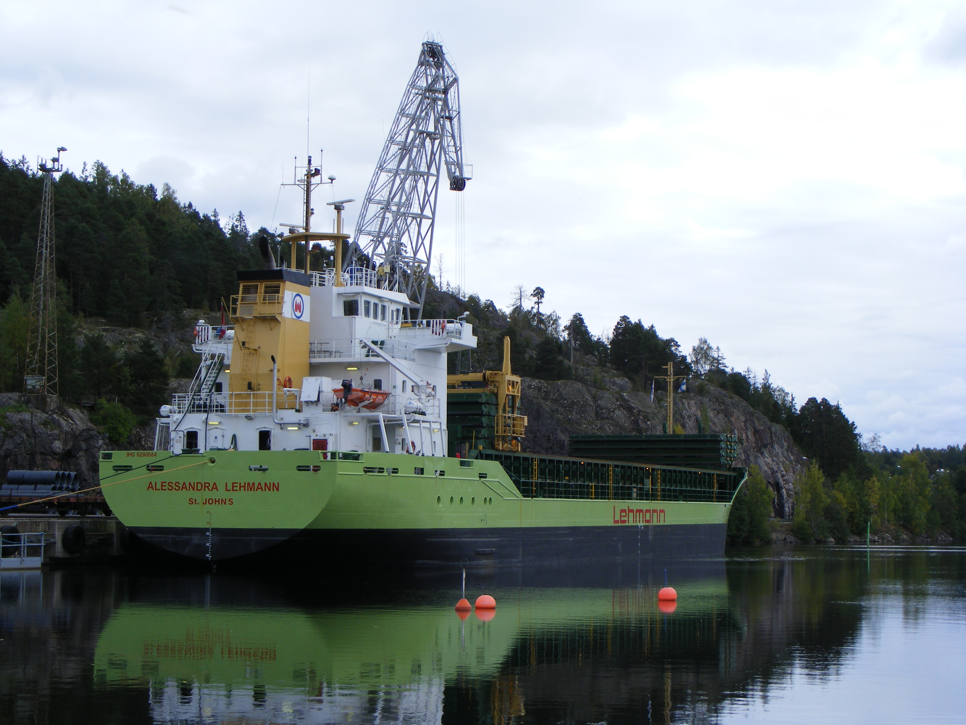 Alessandra Lehmann im Hafen von Skuru (Finnland)